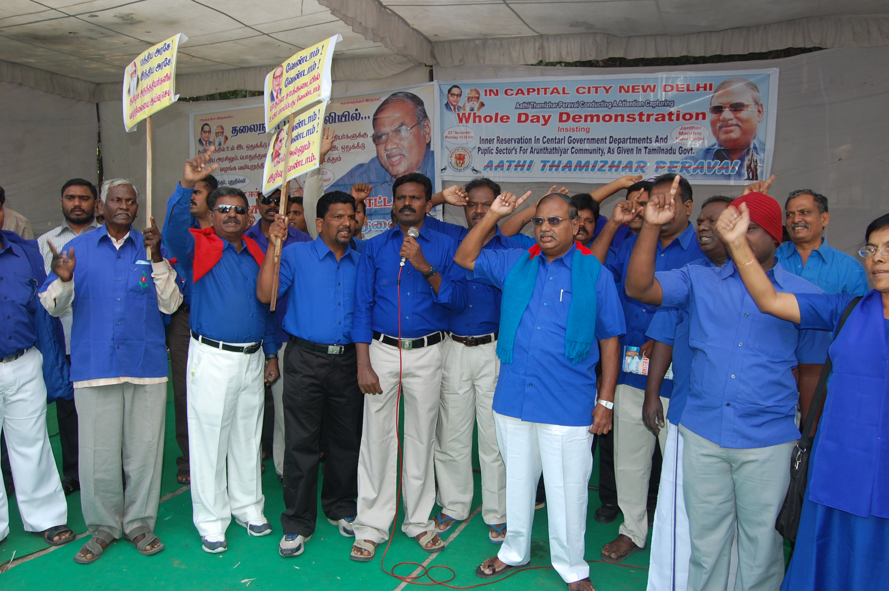 A demonstration by Aathi Thamilar Peravai insisting Central government to provide inner reservation for arunthathiyar held at Janthar Manthar, New Delhi on 23 November 2009